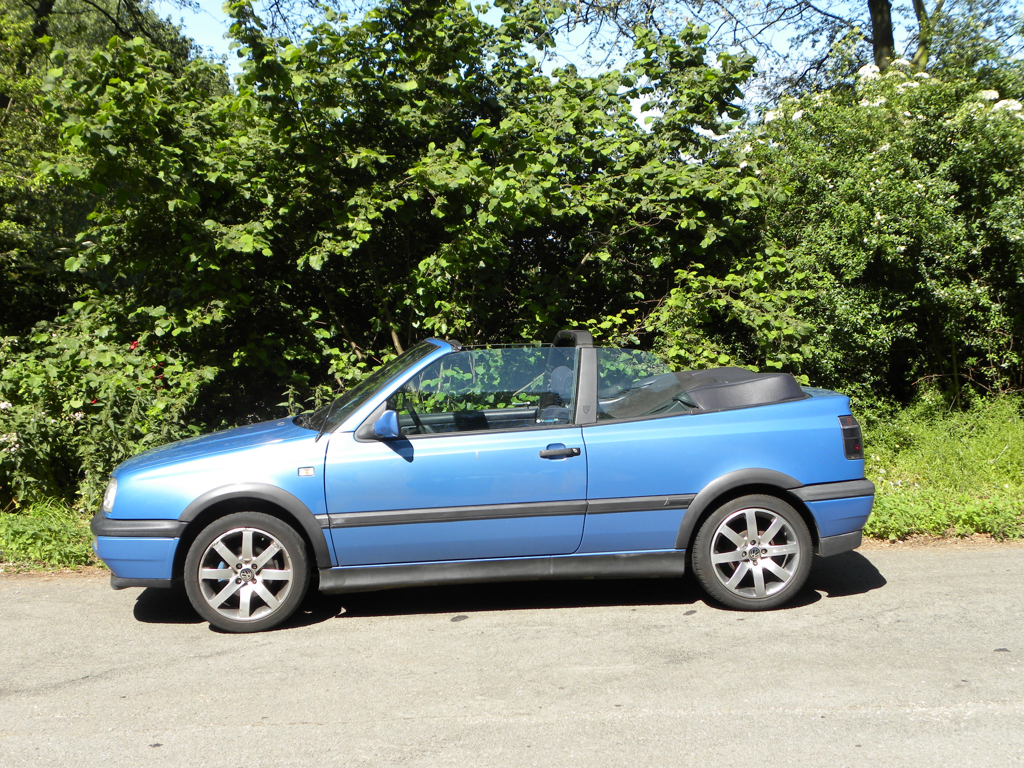 Silk blue VW Golf Cabriolet from 1994. Stil Auto Sport Edition)